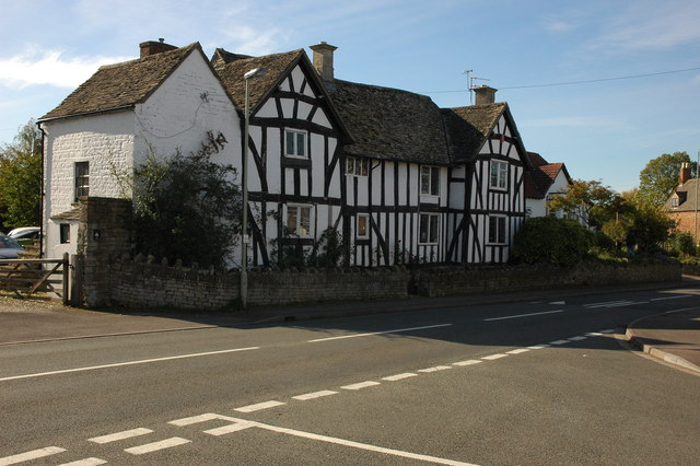 Half-timbered house, Bishop's Cleeve Half-timered former farmhouse in Bishop's Cleeve